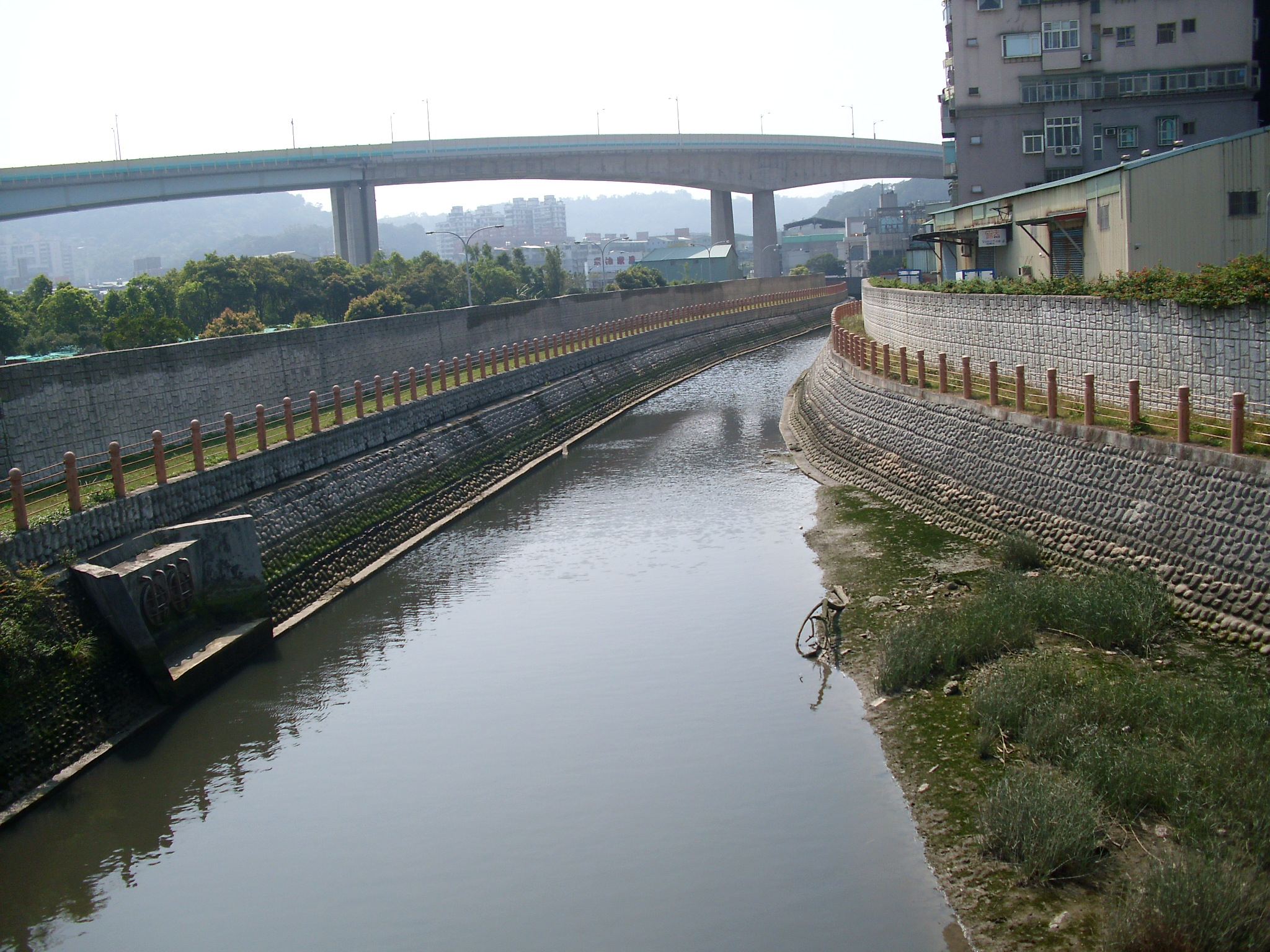 Guanyinkeng River